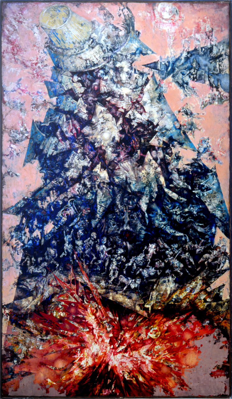 Zbyšek Sion, Fall of the Tower (1966-67)